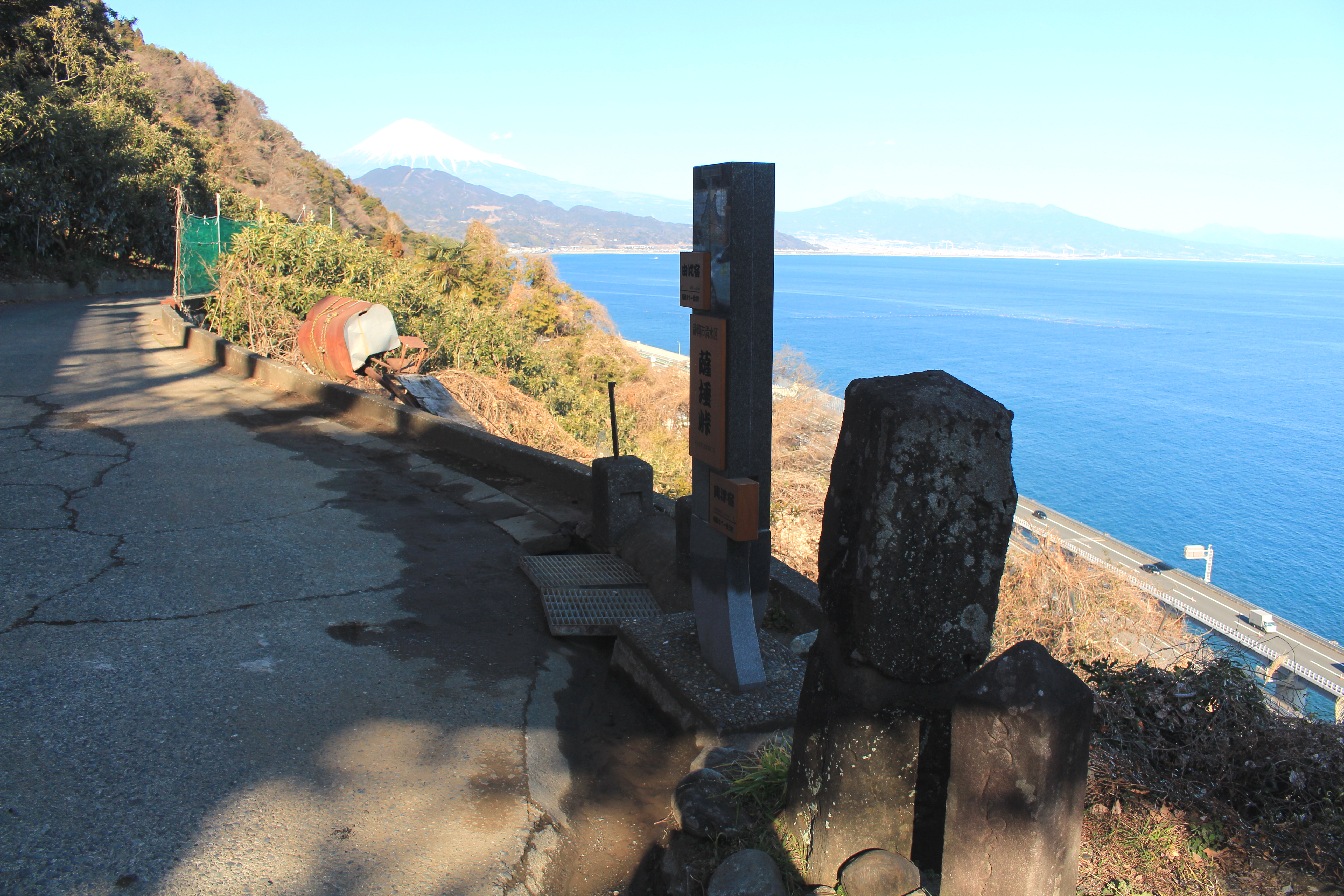 Satta Pass in Shimizu-ku, Shizuoka City, Shizuoka Prefecture, Japan. Canon EOS Kiss X7i